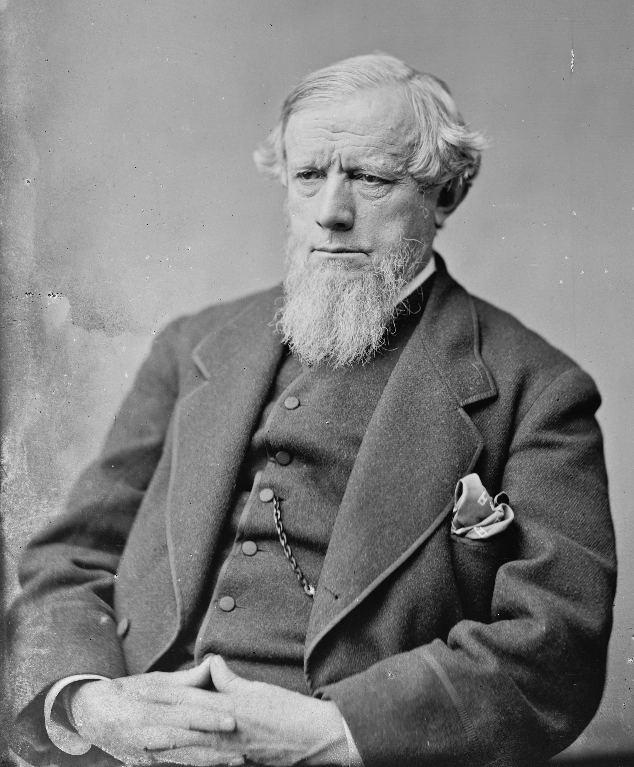 Allen G. Thurman. Library of Congress description: "Thurman, Hon. Allen G. Senator of Ohio. Born in Lynchburg, Va. Nov 13, 1813".